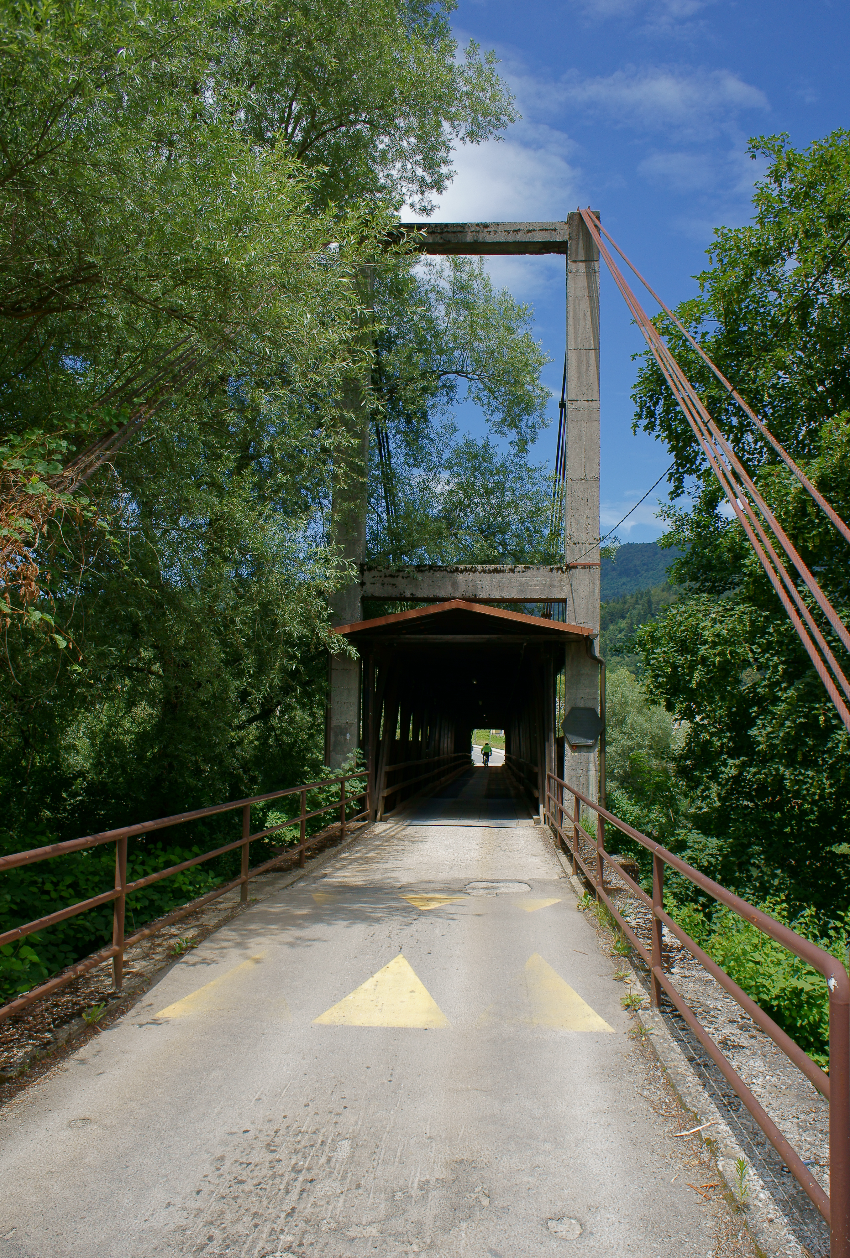 Bridge across Sava river in Jevnica, Slovenia.